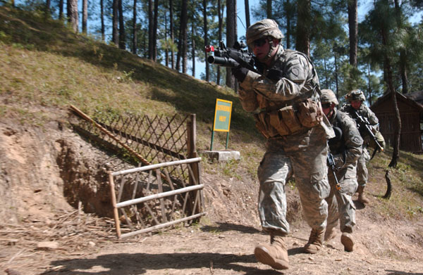 An assault team from C Company, 3rd Battalion, 21st Infantry Regiment, clears an objective during a demonstration for Battalion, 5th Group, 5th Ghurkha Rifles (Frontier Force) during Exercise Yudh Abhyas 07-02. (U.S. Army photo by Staff Sgt. Matthew T MacRoberts) (Released)